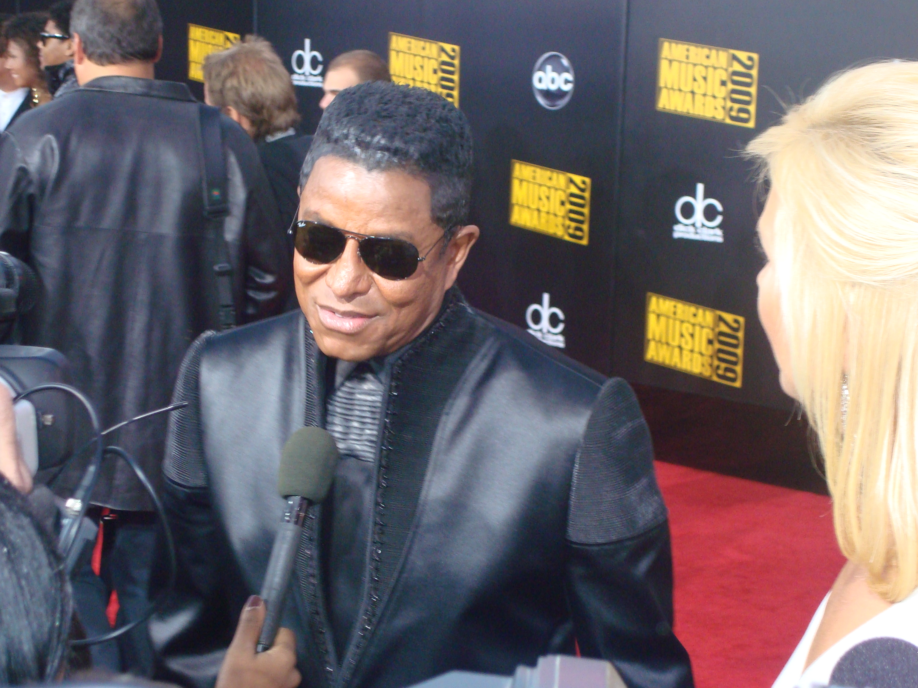 Jermaine Jackson at the 2009 American Music Awards Red Carpet